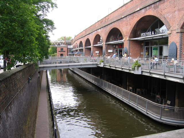 Deansgate Locks Cafe/Bars overlooking the Rochdale canal, Whitworth Street West, Manchester.